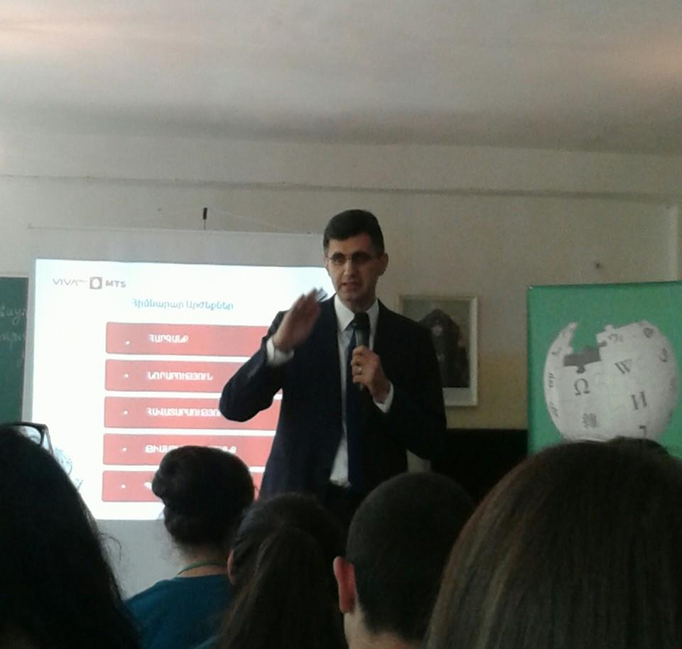 Ralph Yirikian in Vanadzor at Wiki camp